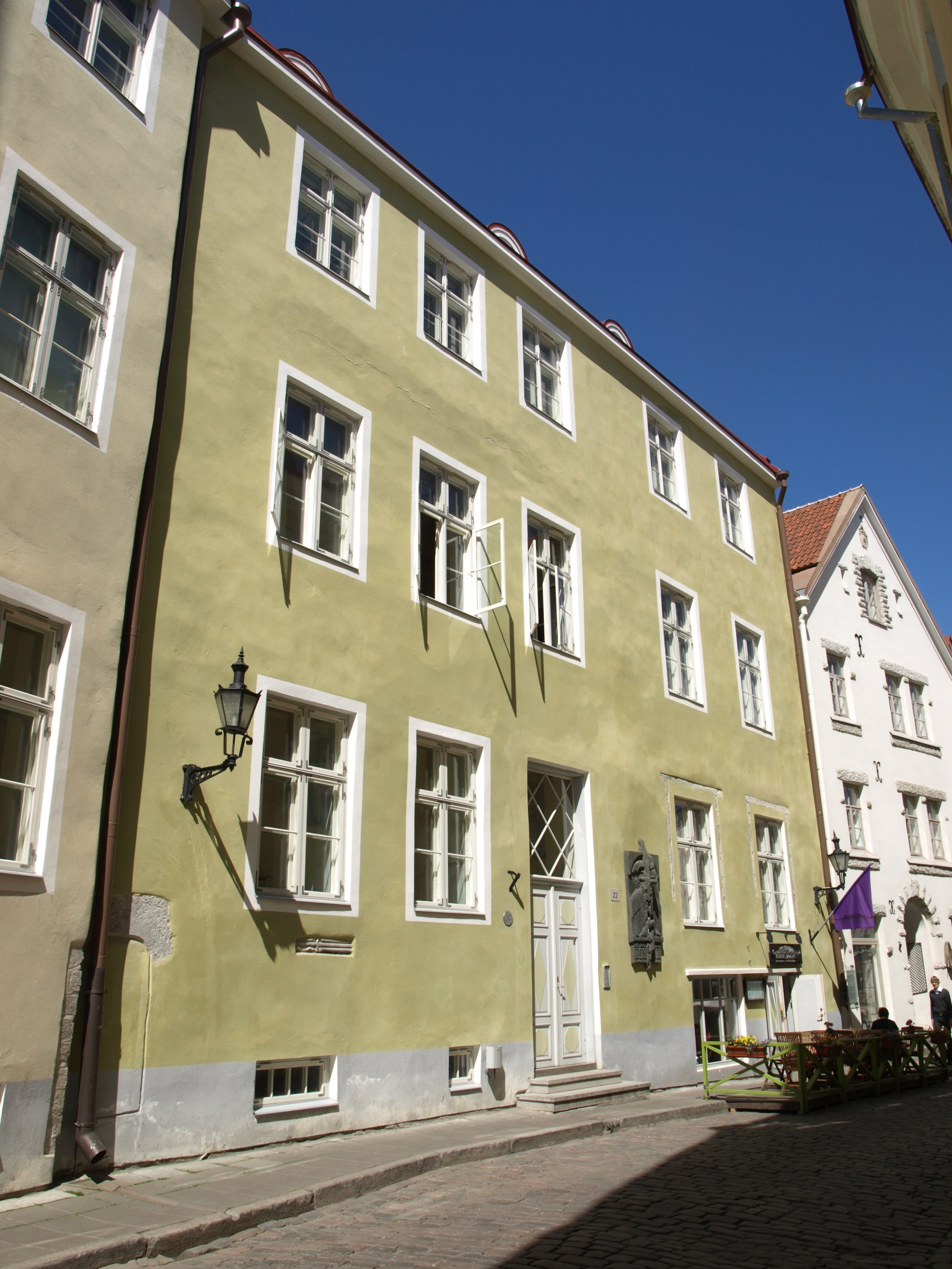 House of Michel Sittow, Tallinn, Rataskaevu 18/20